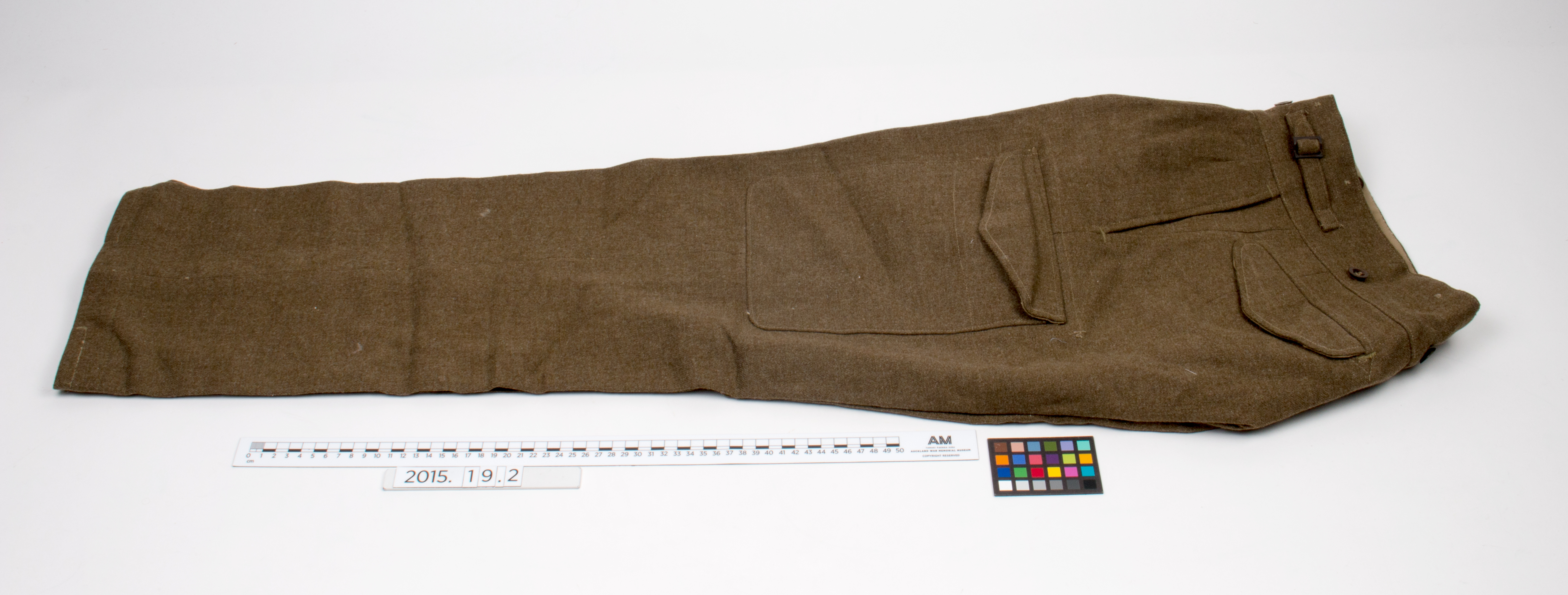 Battledress trousers - Second-Lieutenant - New Zealand Cadet Forces - John Maurice Hume - 1950s-60s Belonged to John Maurice Hume, officer in School Cadet unit (Thames High School) unwaisted, woollen trousers with strap and buckle fit adjusters on the side waist and suspender buttons; button fly; angled front pockets; jetted rear pockets with flaps; large cargo pocket on left side leg; leather hem protection strip on inside front legs maker- Harris Langton Ltd, Auckland labels- defence stamp, rear waist, black ink- "NZ Ȋ D - DEC 195(5) - (.)"; makers label- stamp on white cotton ground, black ink, sewn inside front waist - "HARRIS LANGTON LTD - Size 7 - Height 5.7 to 5.8 - Waist 30 to 31 - Leg 441-2 - 1955"